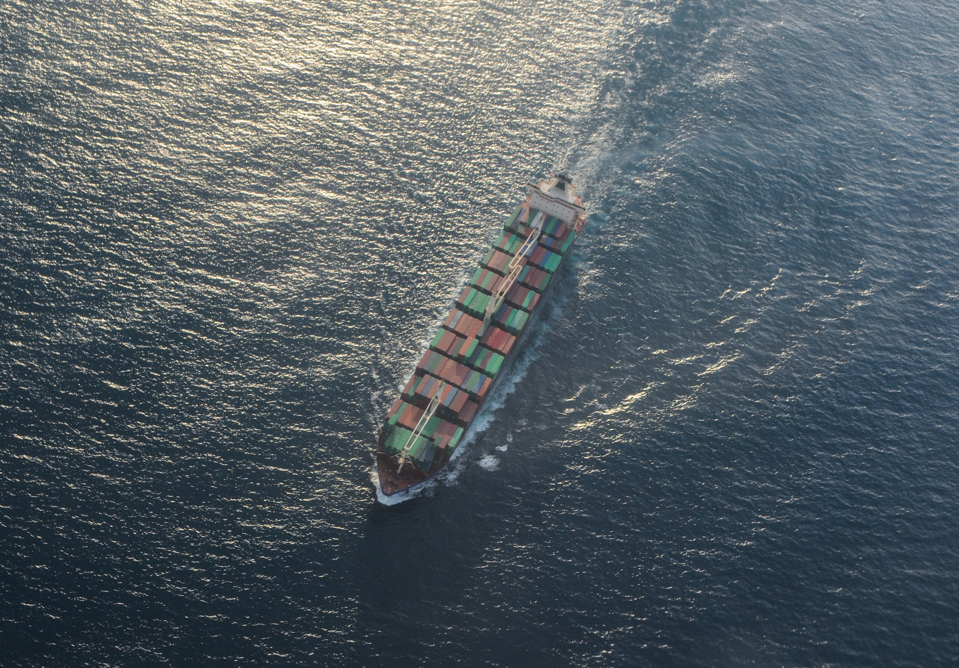 Aerial photograph of a cargo ship, Mar Caribe, Venezuela